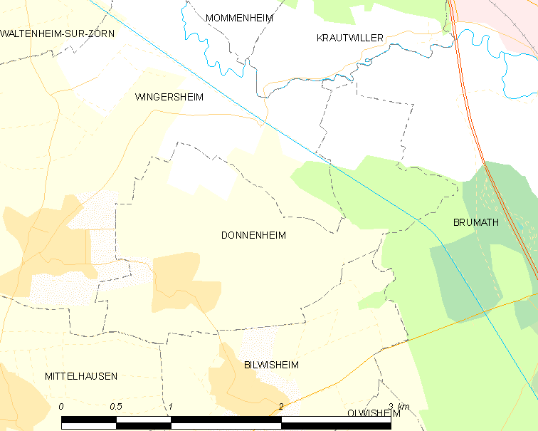 Map of French municipality